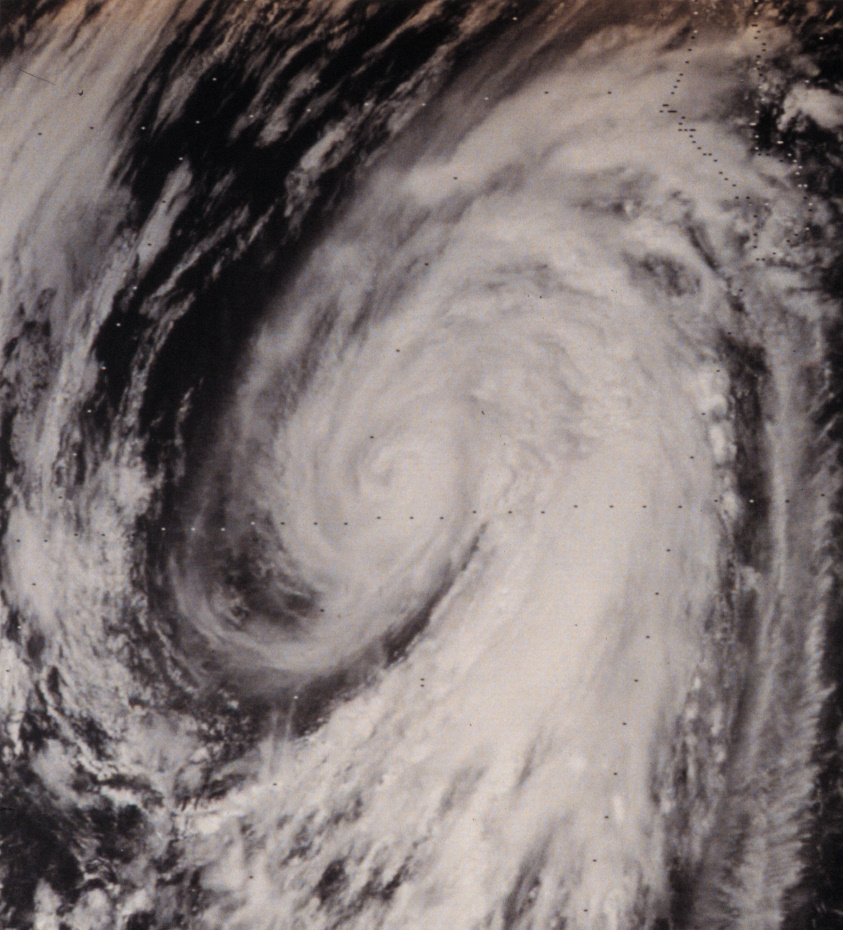 Pacific Hurricane Heather in 1977. Taken from NOAA photo library [1]